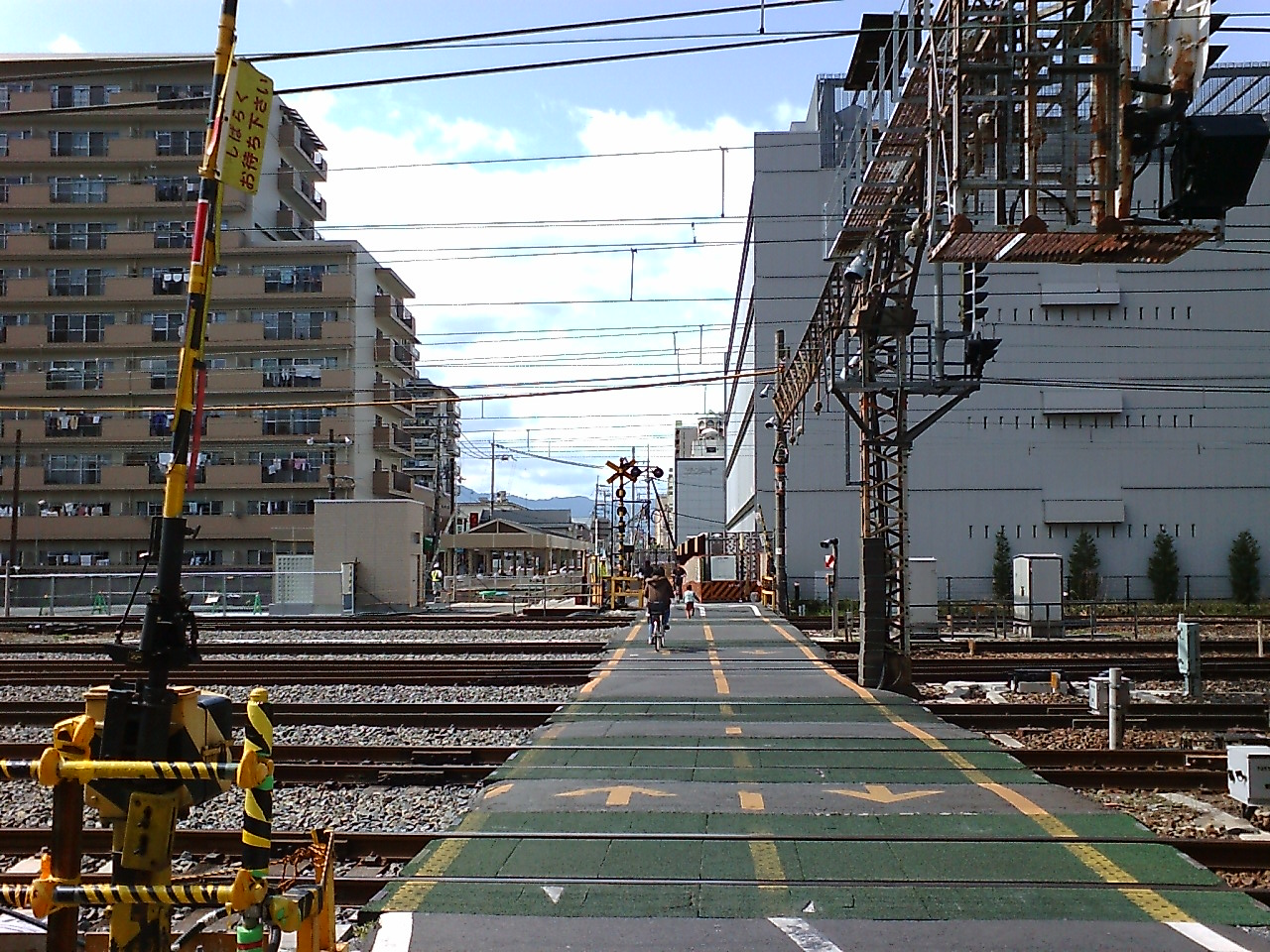 This is Shimogasa-michi Crossing in Kusatsu City, Shiga, Japan.